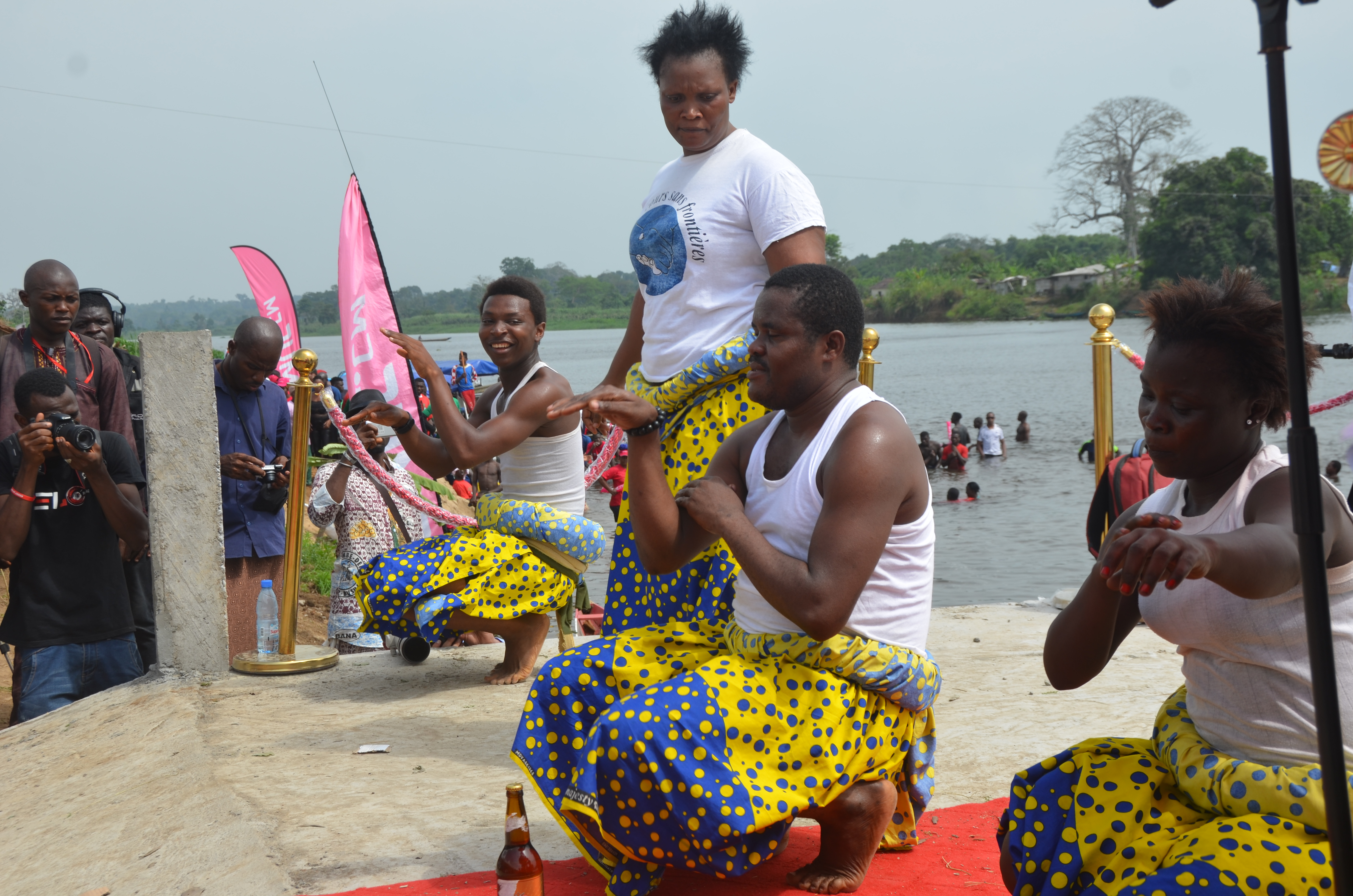 This is an image with the theme "Play" from: Cameroon